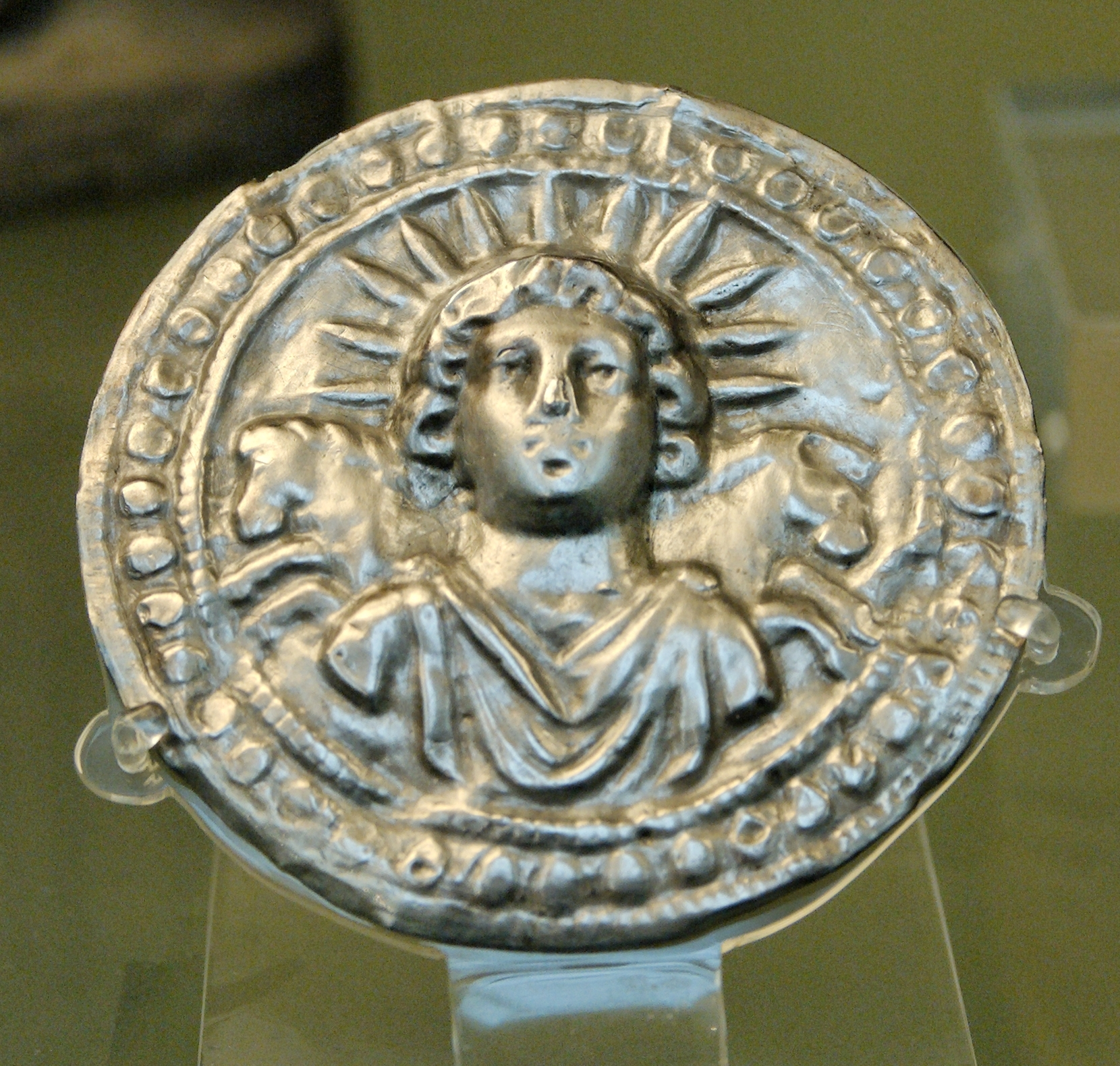 Leaf disc dedicated to Sol Invictus. Silver, Roman artwork, 3rd century AD. From Pessinus (Bala-Hissar, Asia Minor).